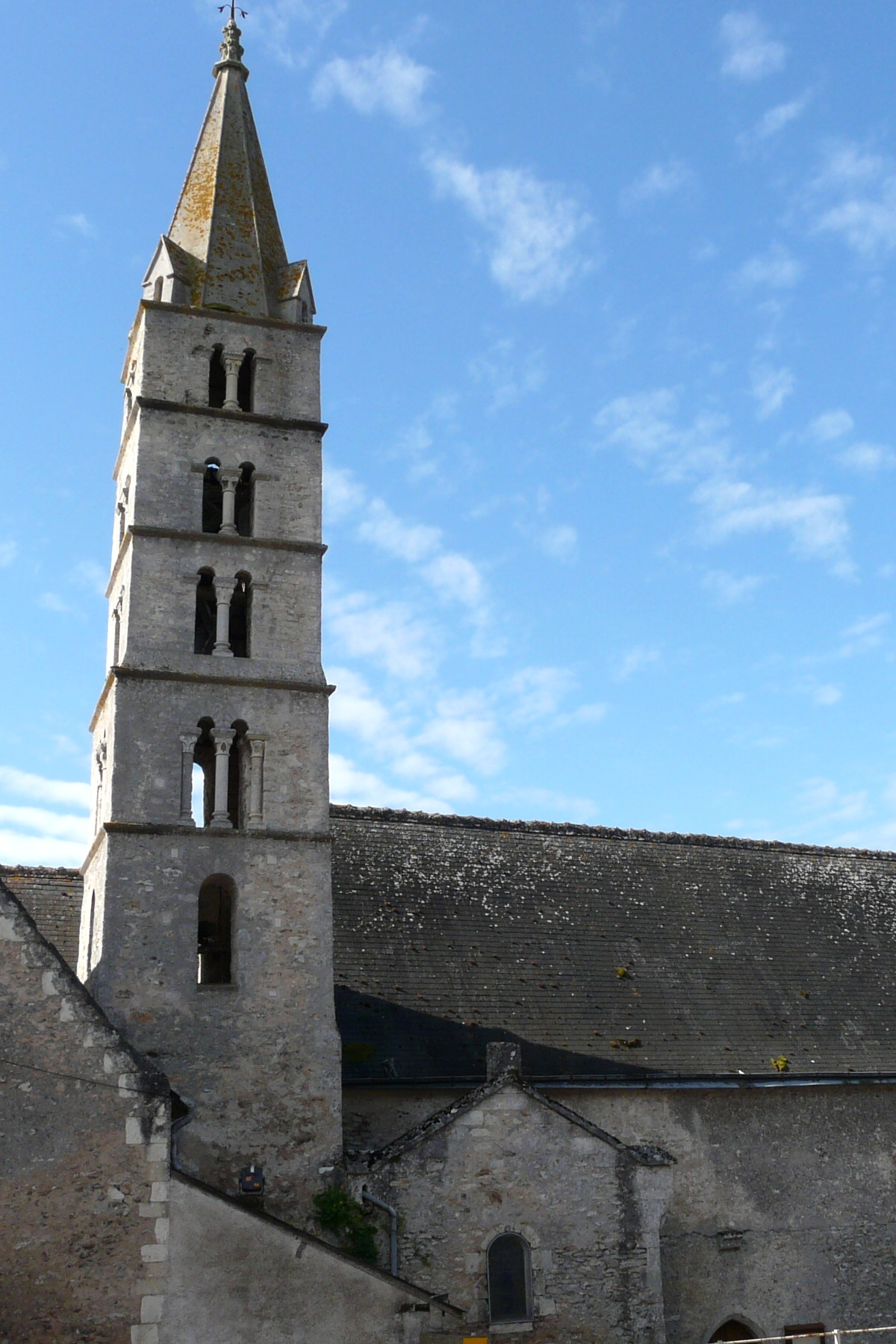 Description Eglise Truyes en Indre-et-Loire DateMay 2009SourceOwn work by the original uploaderAuthorBRUNNER Emmanuel,Manu25 Eglise Truyes en Indre-et-Loire